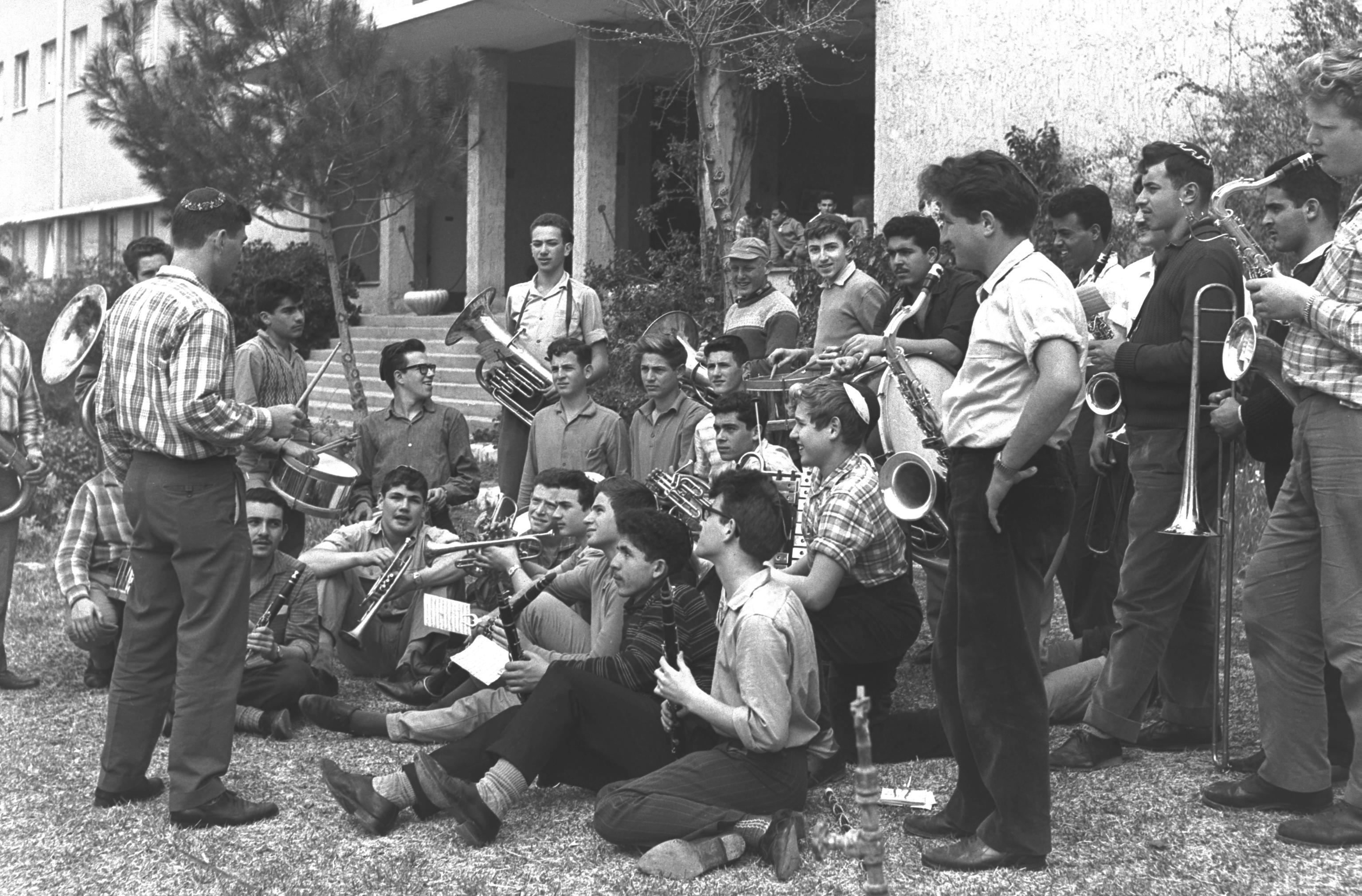 STUDENTS AT THE "KFAR SITRIN" YESHIVA & TECHNICAL HIGH SCHOOL NEAR HAIFA DURING A MUSIC LESSON.